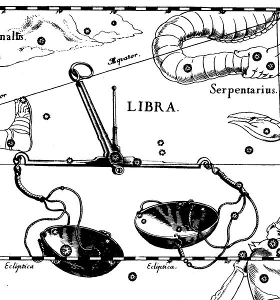 The Libra constellation from Uranographia by Johannes Hevelius. The view is mirrored following the tradition of celestial globes, showing the celestial sphere in a view from "ouside"